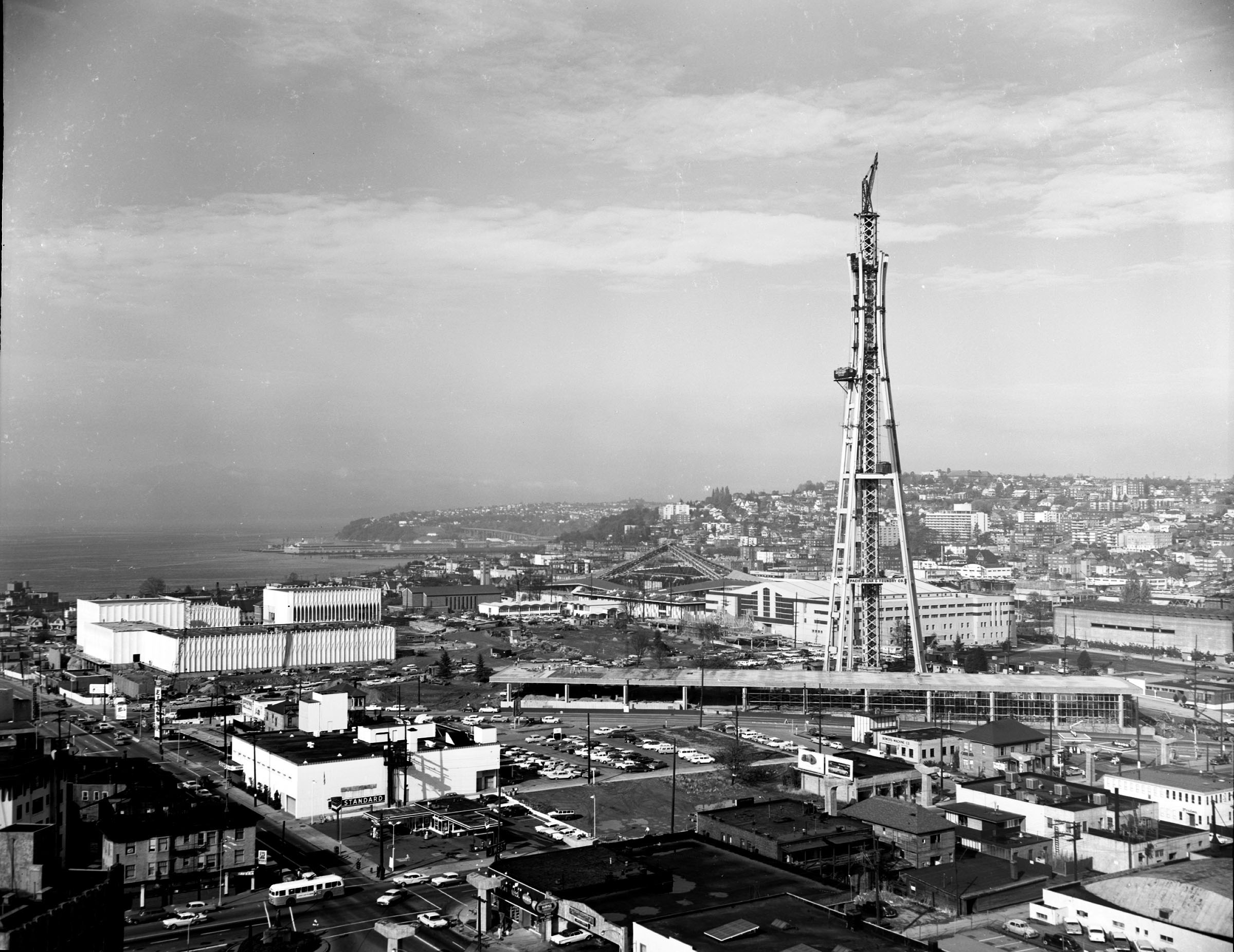 Space Needle (Seattle, Washington, USA) under construction, 1961. This distance shot gives quite a bit of context of a much-changed neighborhood, and also shows the U.S. Pavilion (later Pacific Science Center) and Coliseum (later KeyArena) under construction. Item 165665, City Light Photographic Negatives (Record Series 1204-01), Seattle Municipal Archives.